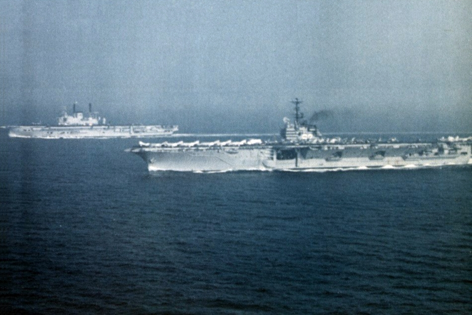 The Royal Navy aircraft carrier HMS Ark Royal (R09) and the U.S. Navy carrier USS Independence (CVA-62), foreground, operating as Task Force 401 during NATO exercise "Royal Knight" in the North Atlantic.